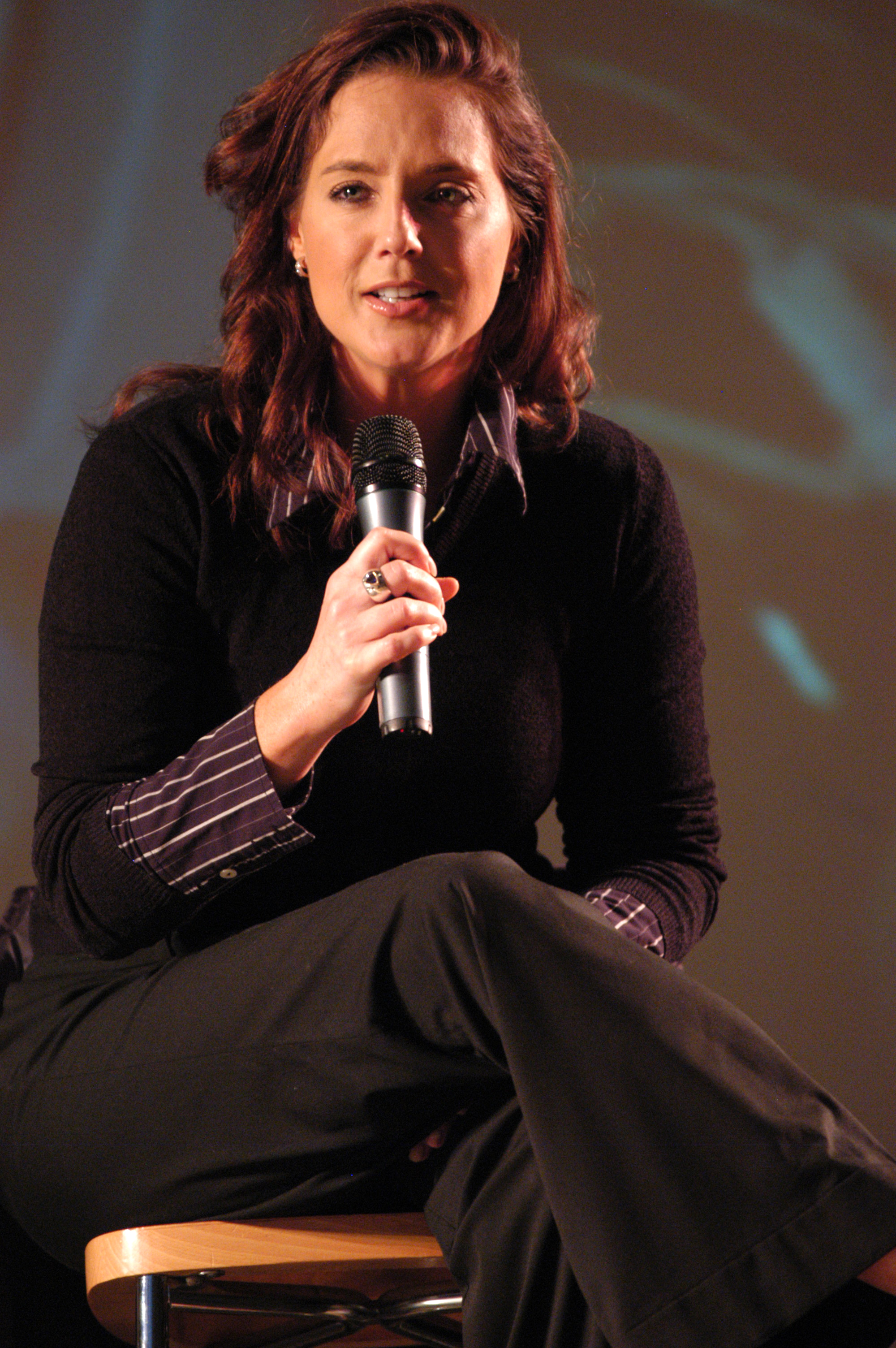 The South African actress Suanne Braun speaking at a Stargate UK Convention in Cheltenham, England, UK.